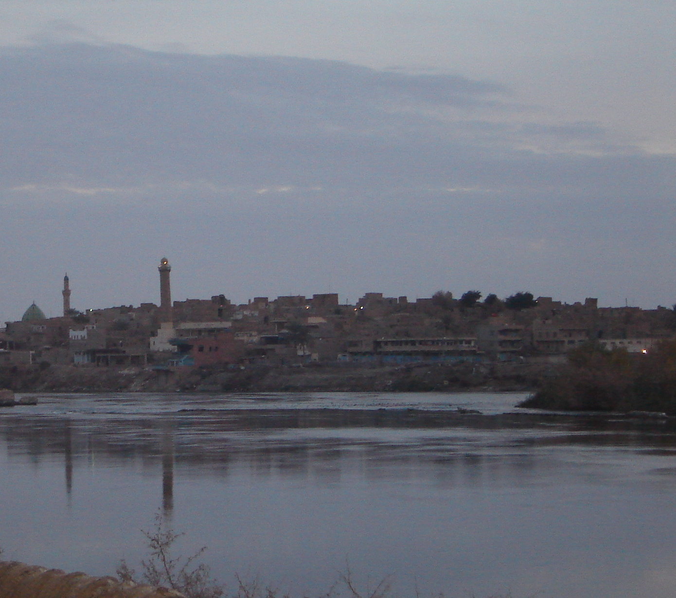 A U.S. Marine Infantryman (0311) with 1/2 Bravo Company patrols alongside the Euphrates River in Hīt, Iraq, 2005.